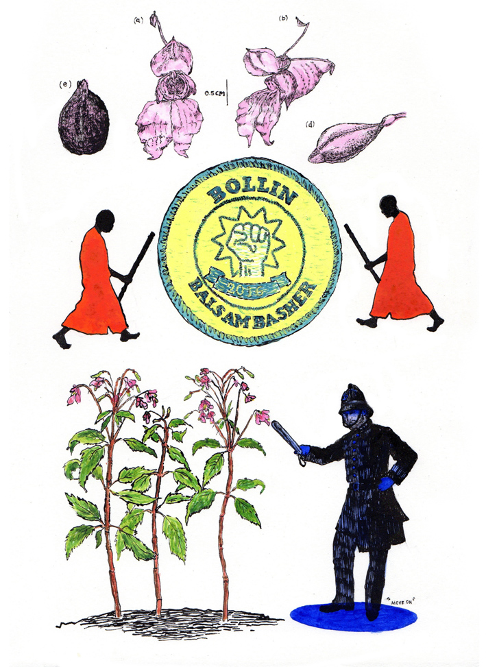 Himalayan Balsam drawing, for 'Exotic Guests & Alien Invaders', The National Trust, Quary Bank Mill, Styal, UK, 2016